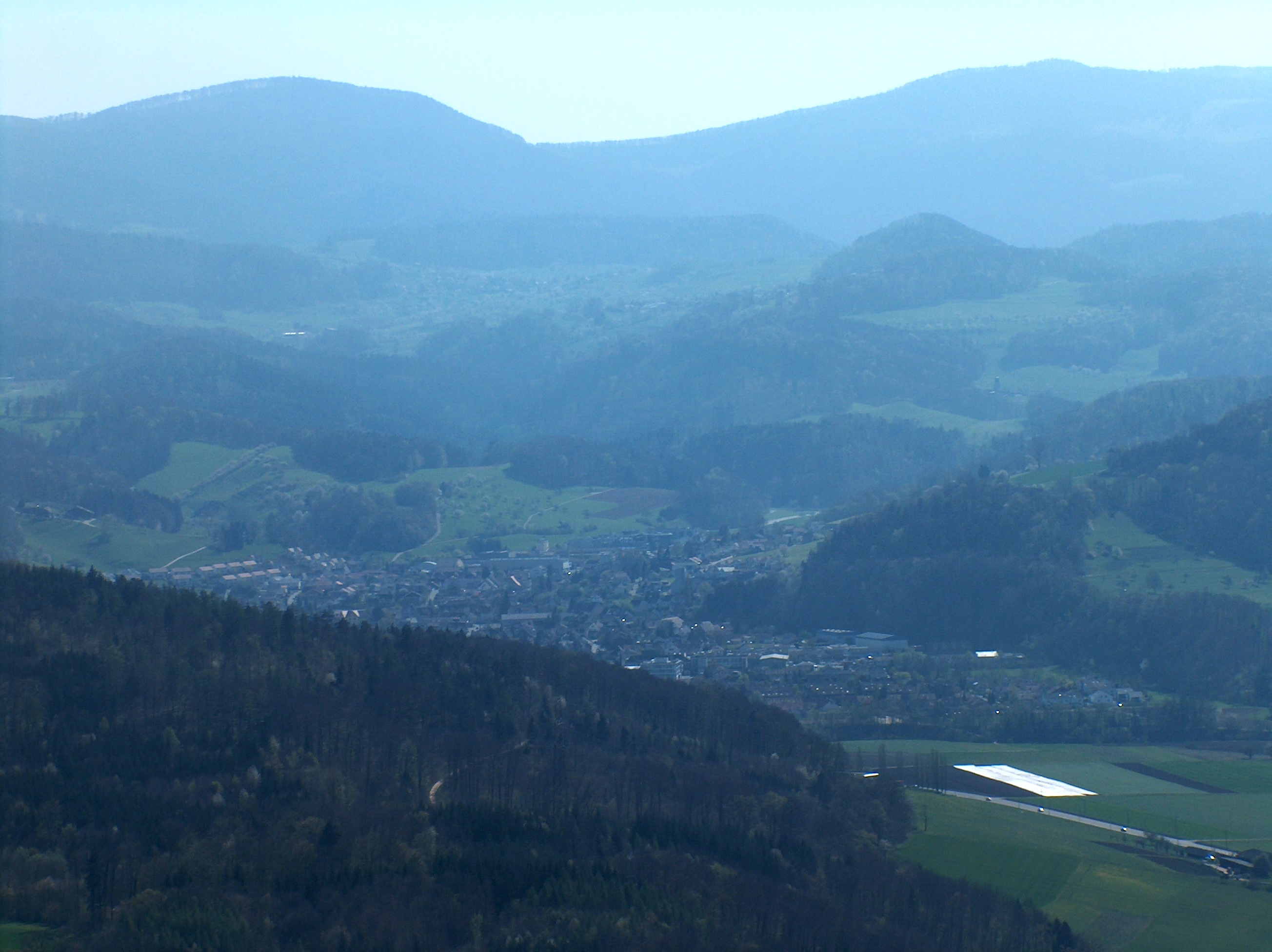 View over Bubendorf from lookout at the top of Schleifenberg, Liestal